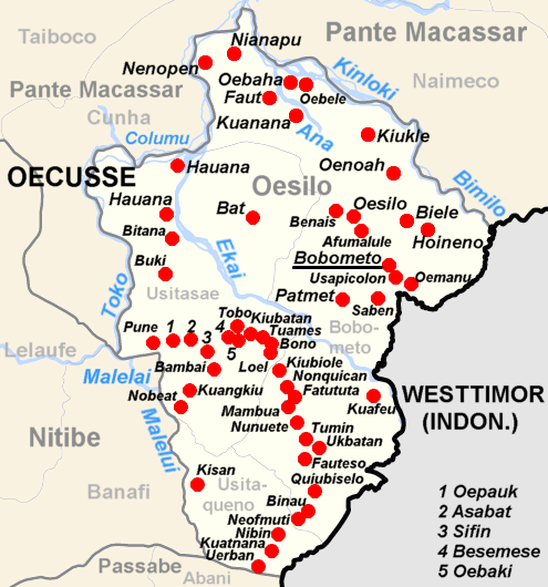 subdistrict of Oesilo, district Oecusse, East Timor